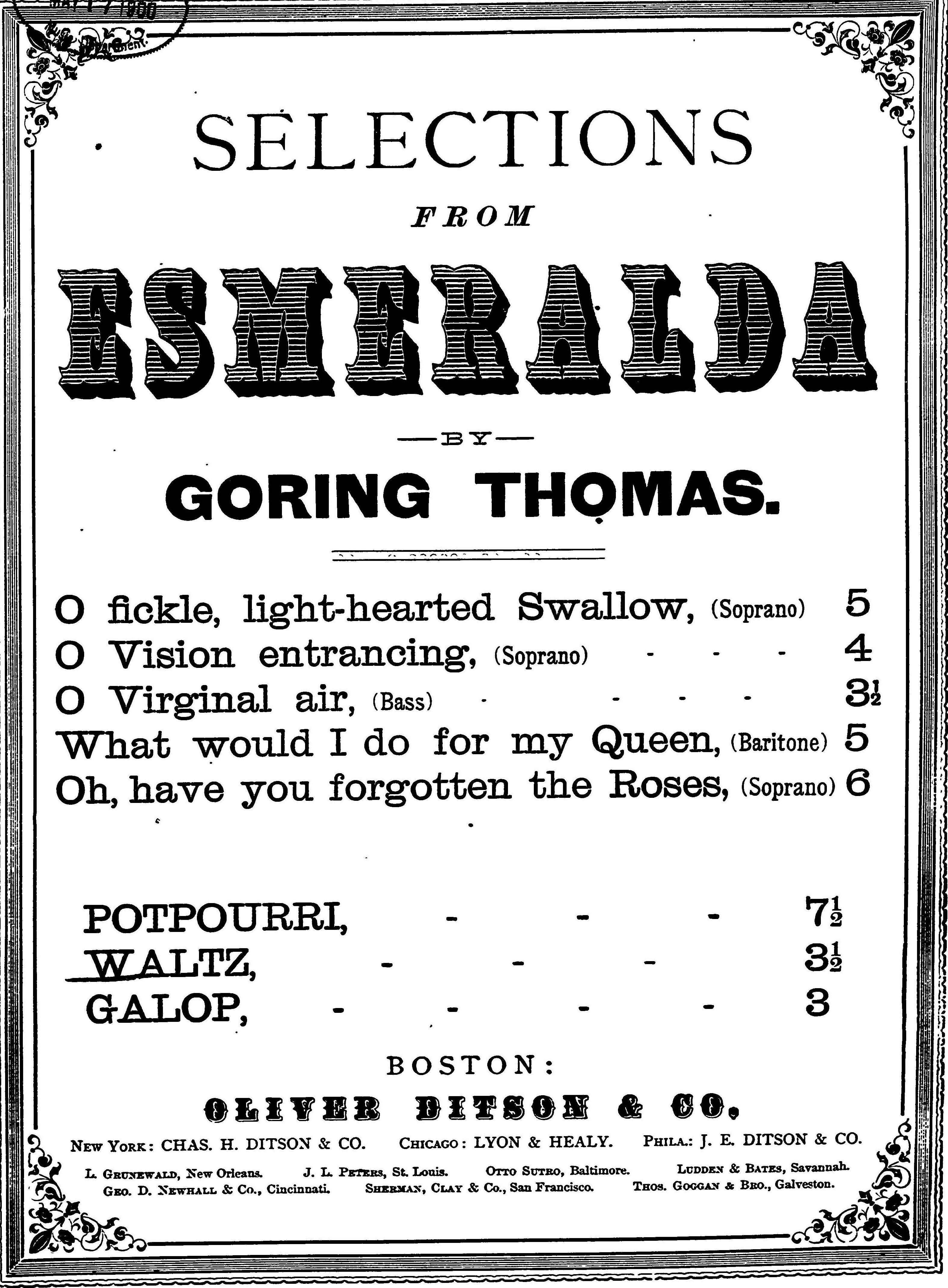 Sheet music cover for excerpts from Thomas's opera Esmeralda. Published by Oliver Ditson and Co., Boston 1883